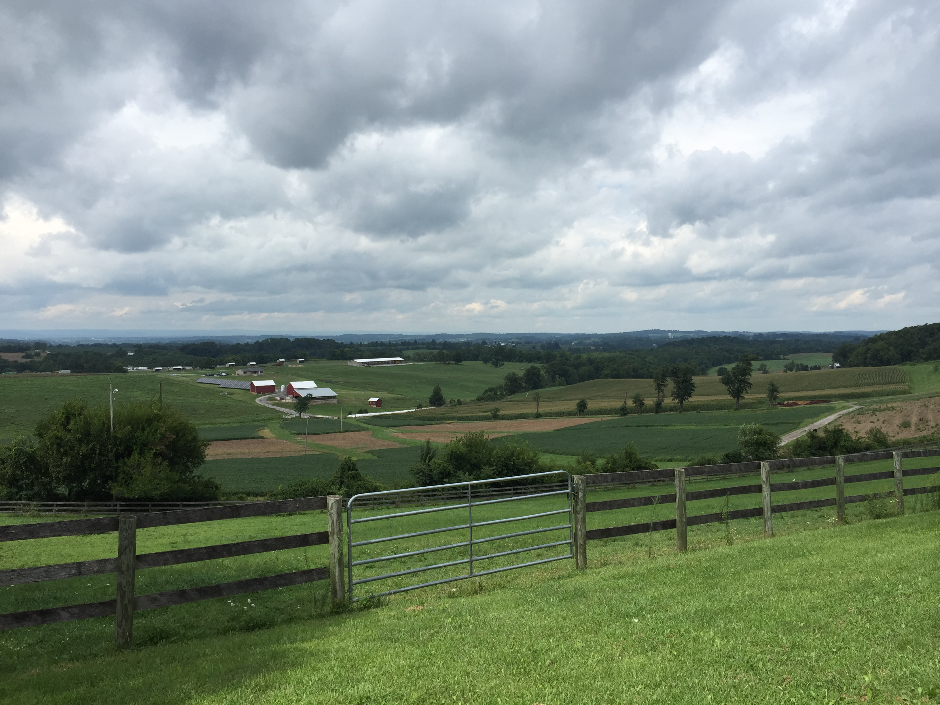 View of a farm along Maryland State Route 407 (Marston Road) near Wilt Road in Marston, Carroll County, Maryland